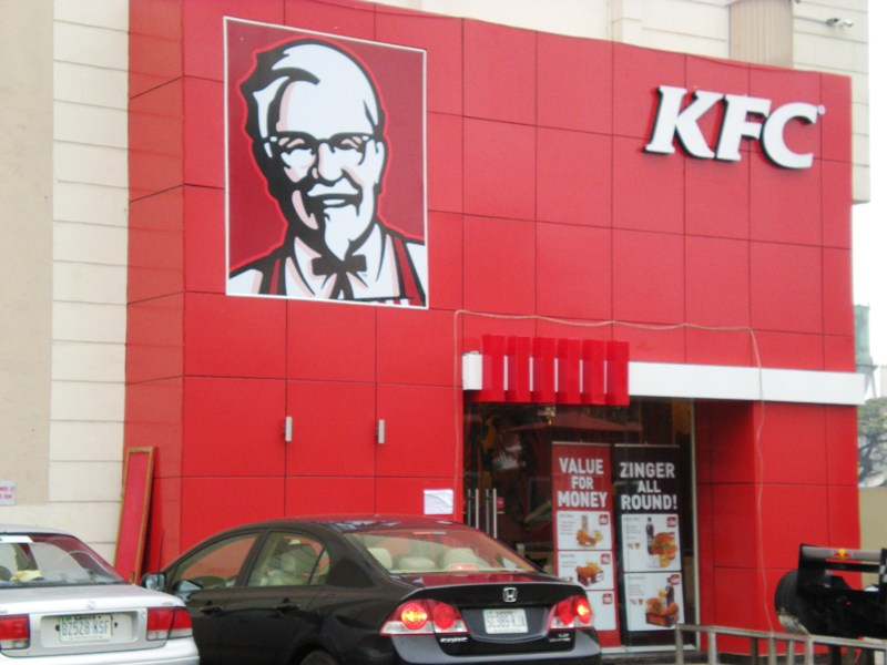 Kentucky Fried Chicken (KFC)'s first branch in Nigeria, located at the City Mall - in Marina, Lagos.